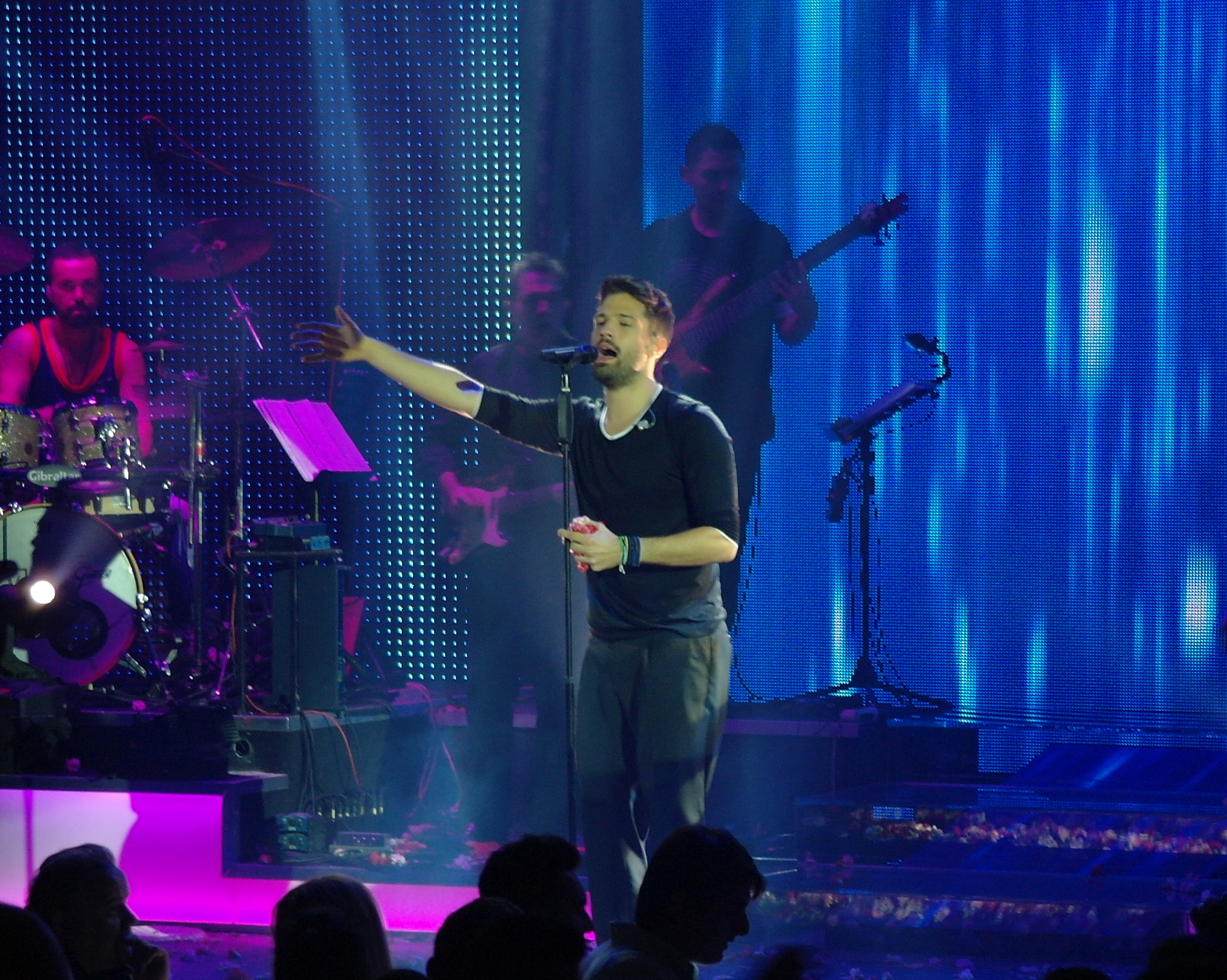 Konstantinos Argyros, Poseidonio